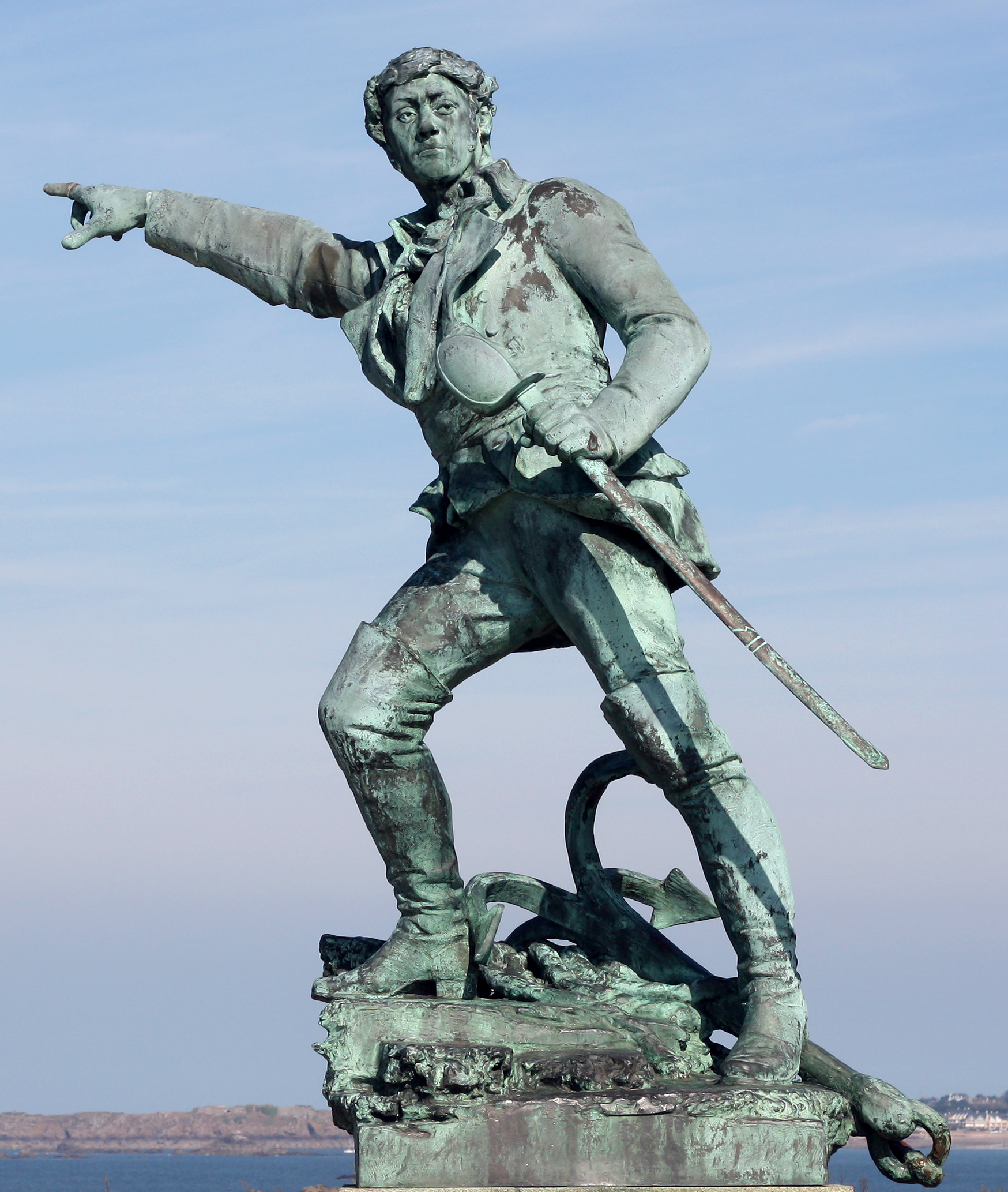 The statue of Surcouf on the northern wall of Saint-Malo. Statue by Alfred Caravanniez (Saint-Nazaire, 1851 - Paris, 1917), inaugurated July 6th 1903.